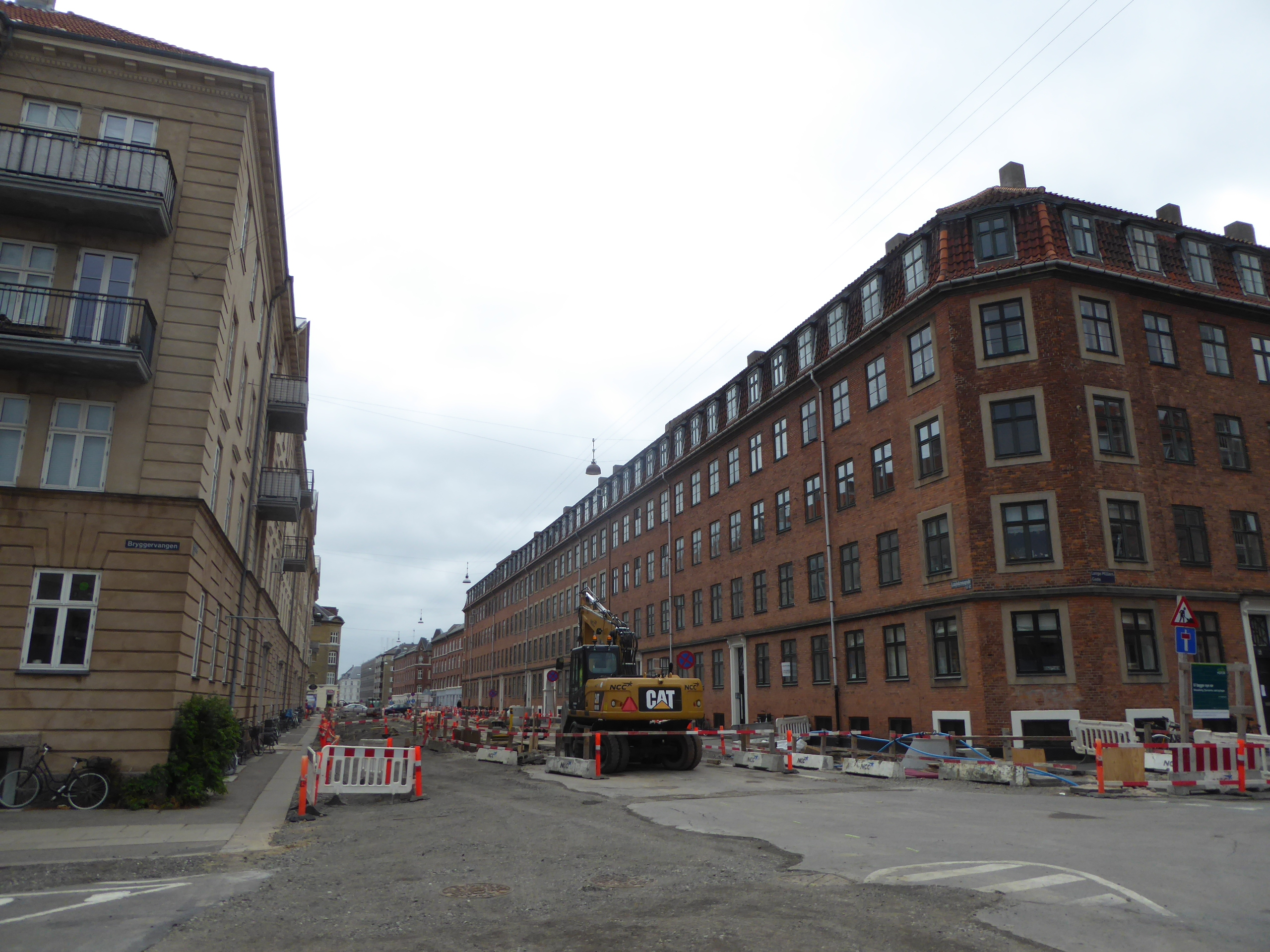 The street Landskronagade at Bryggervangen in Østerbro in Copenhagen. The roadwork is due to climate change adaption.